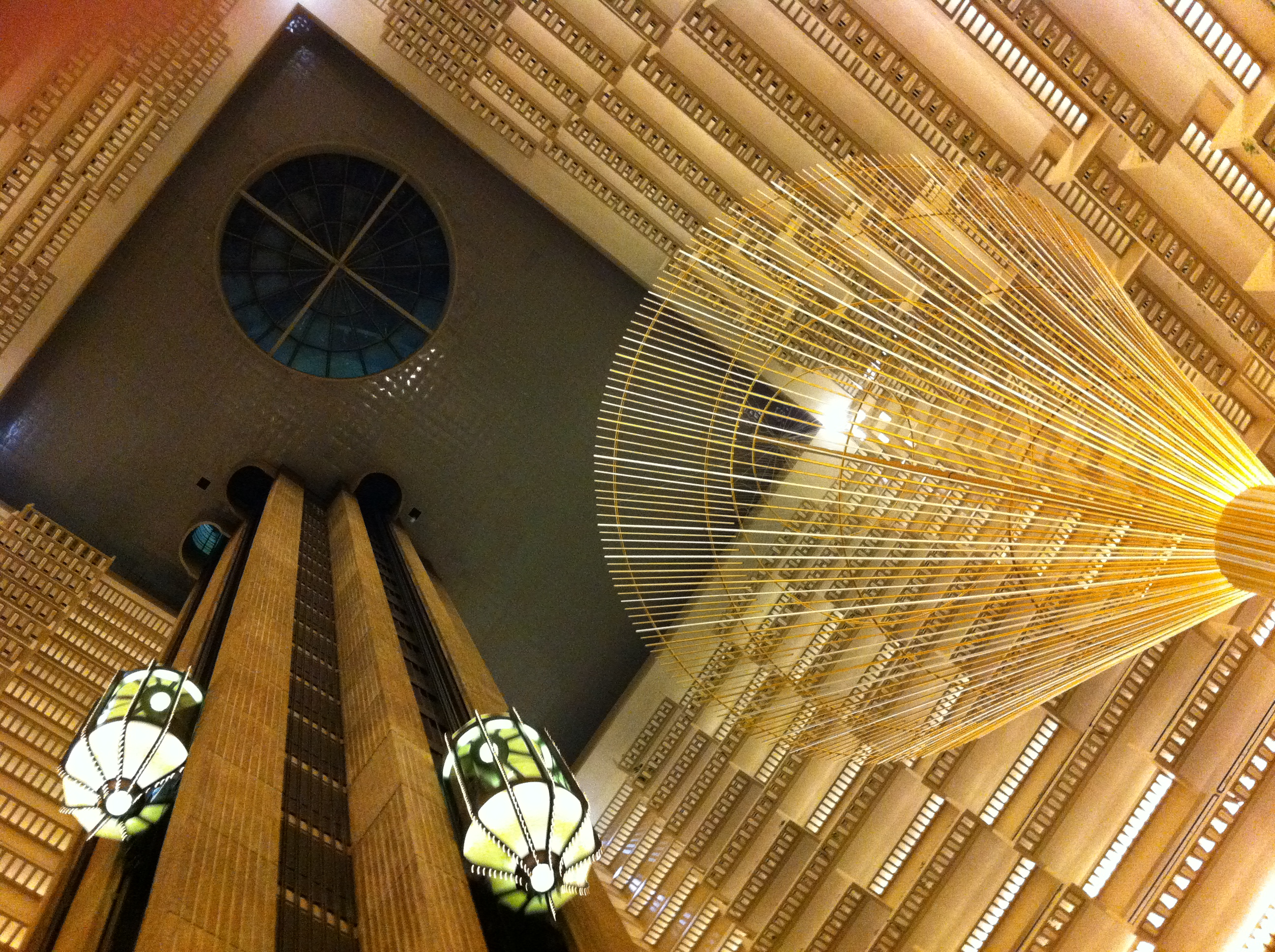 Atrium of the Hyatt Regency Atlanta Hotel — in Downtown Atlanta. View from the lobby floor, looking up.